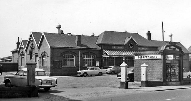 Blyth Station, exterior. View from street of the entrance to the still intact terminus of the ex-NER branch from Newsham, closed 2/11/64. (Coal shipments from nearby South Blyth staithes continued until 1965).